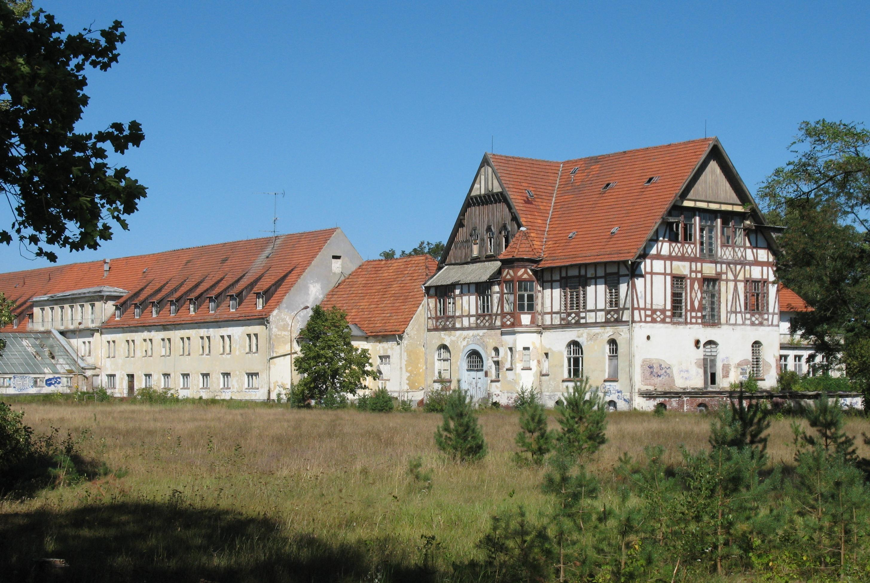 Former sanatorium in Lychen in Brandenburg, Germany